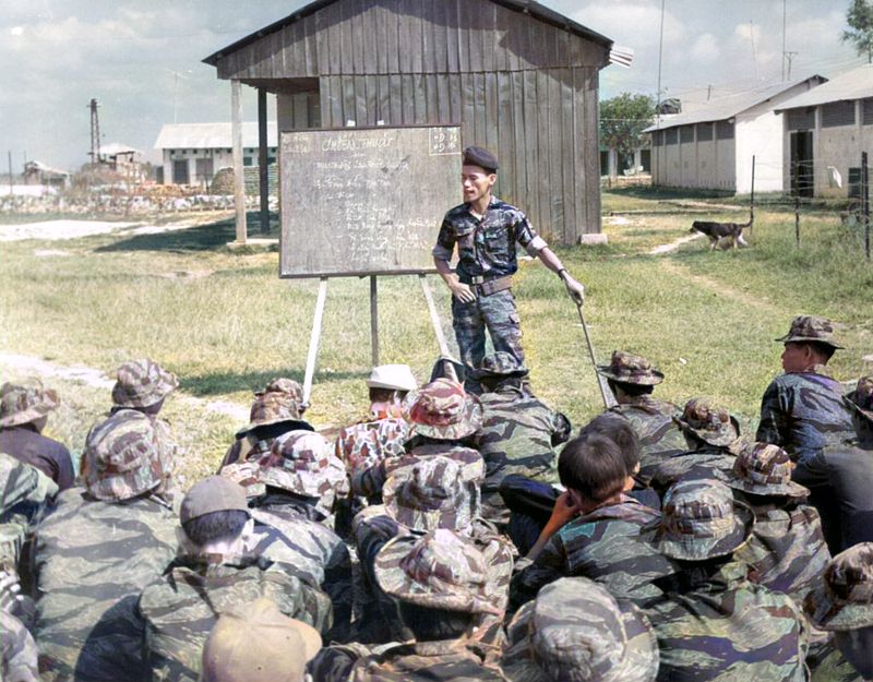 CIDG Unit Training